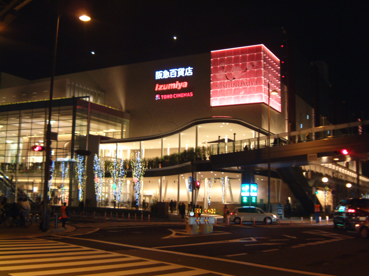 HANKYU NISHINOMIYA GARDENS